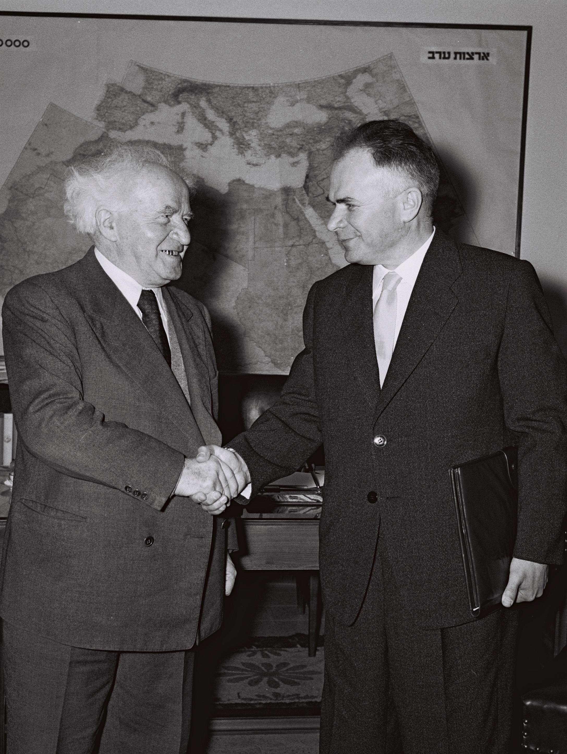 NEWLY APPOINTED RUSSIAN AMB. TO ISRAEL H.E. MIKHAIL FEODOROV BODROV (R), IS GREETED BY PRIME MINISTER DAVID BEN GUIRION, JERUSALEM.